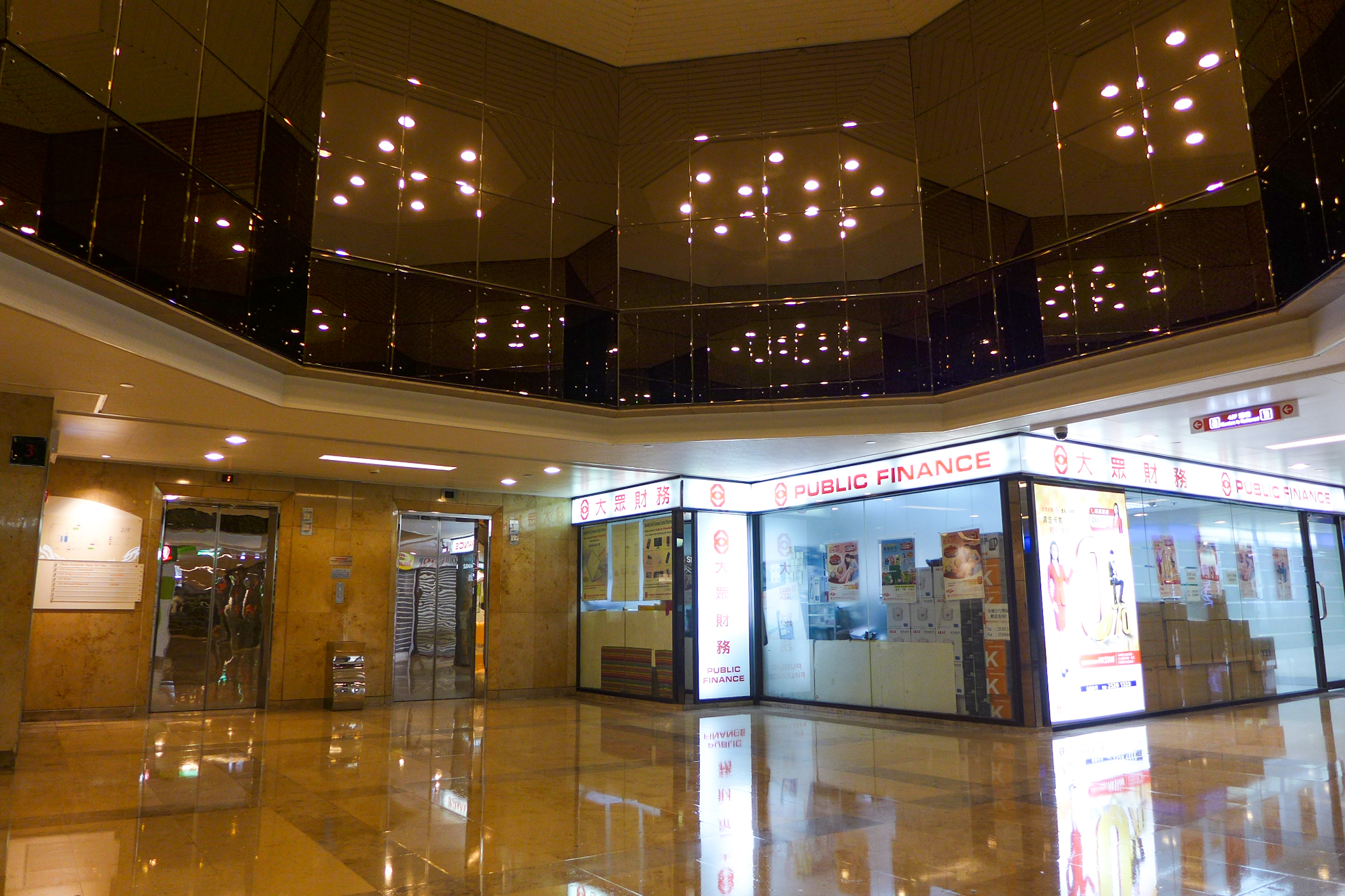 United Centre